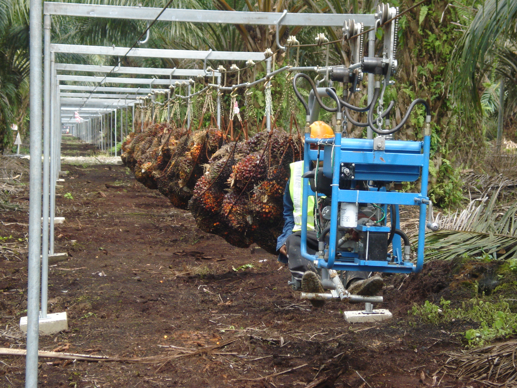 Cableways are integral transport solutions for agricultural products in low slope terrains. The most important benefits of such systems are: adaptability and flexibility to all terrains, low operational and maintenance costs, better quality of transported products, guarantee of transport under any climatic or soil condition, addition of marginal productive area and non compacting of the agricultural soil.